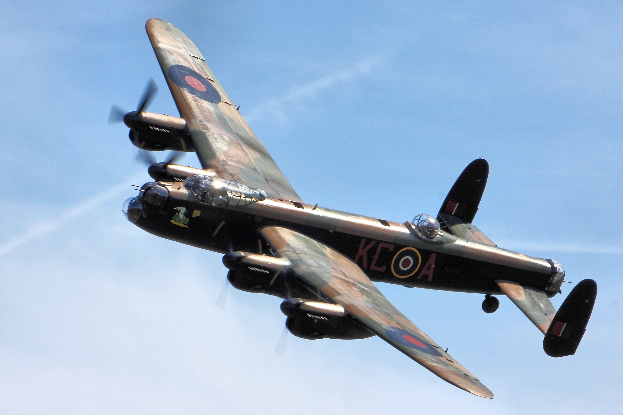 Avro Lancaster - Shuttleworth Military Pageant